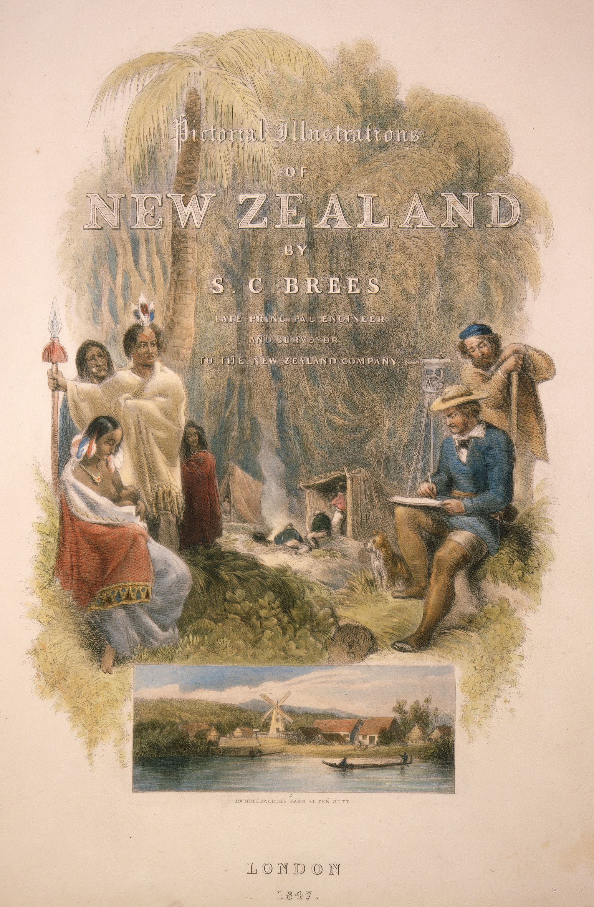 Brees with his theodolite and sketchbook, his dog and several other surveyors in a camp in a clearing in Porirua Bush. Brees is sketching a Maori family. Below the main image is a vignette of the Hutt River, with Molesworth's farm and windmill. Molesworth and Ludlam's windmill was not built until 1845, Brees' last year in Wellington, giving a date to the lower view.